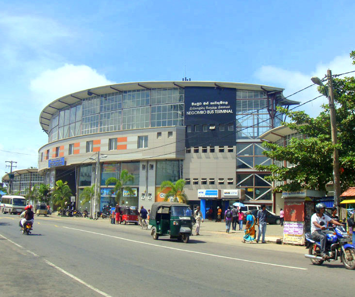 This is a photo of a Negombo bus terminal